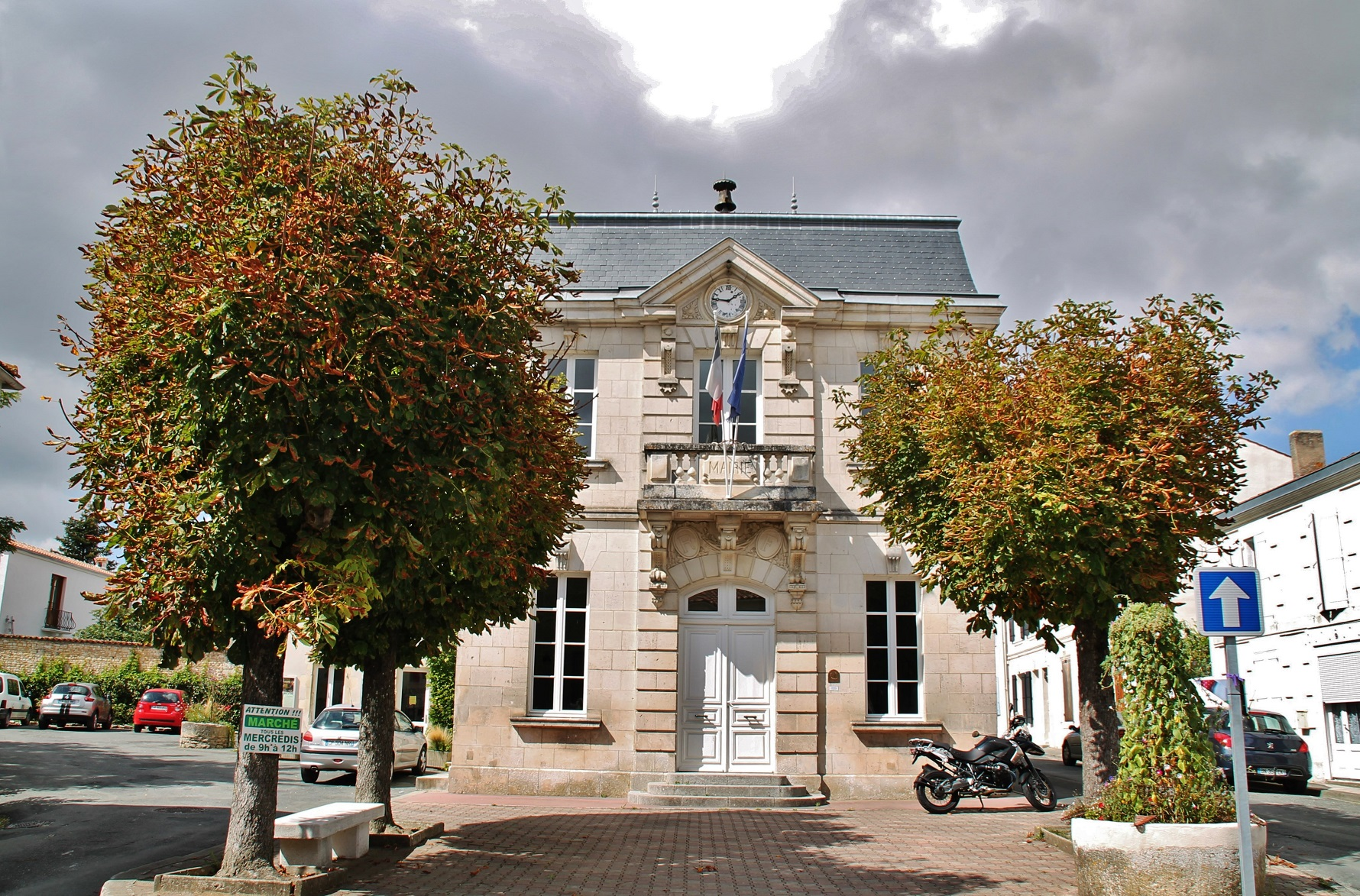 La Mairie